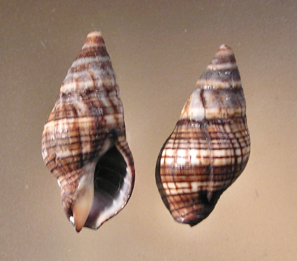 Euthria cingulata Reeve L.A., 1847; Taiwan